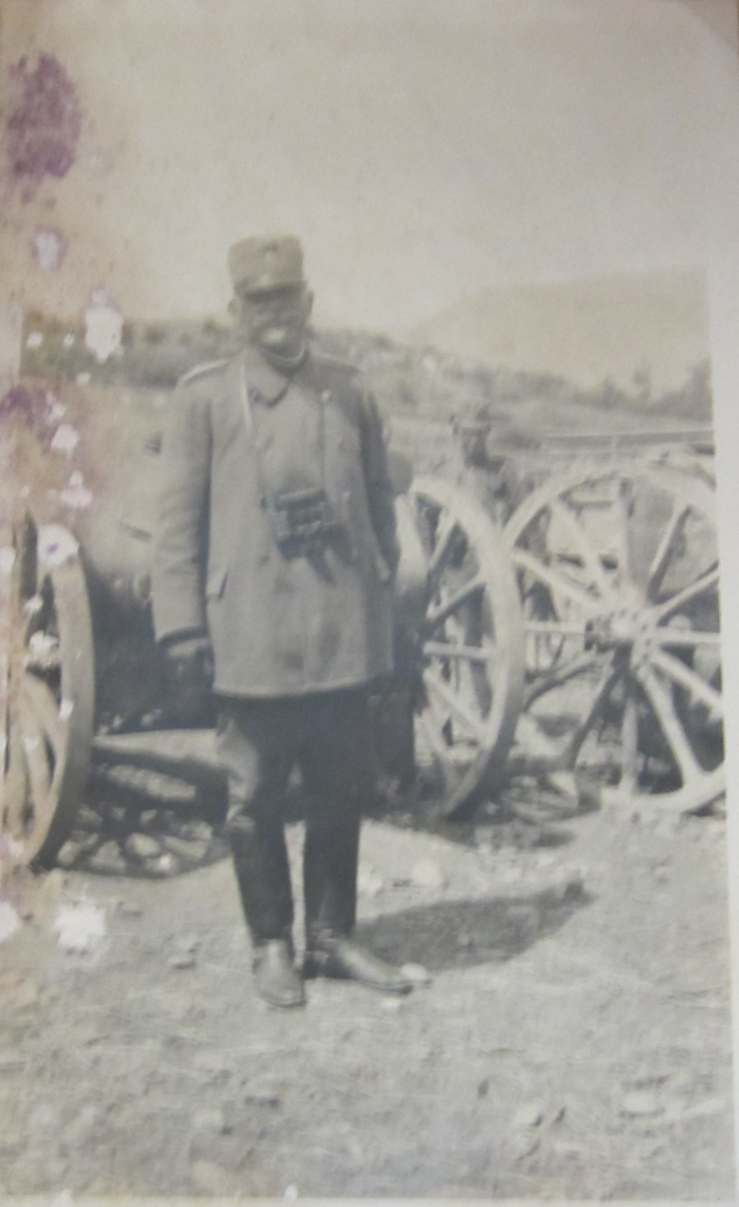 General E.Manousogiannakis.Photo of unknown reporter, 1912. National Historic Museum, Athens, Greece.